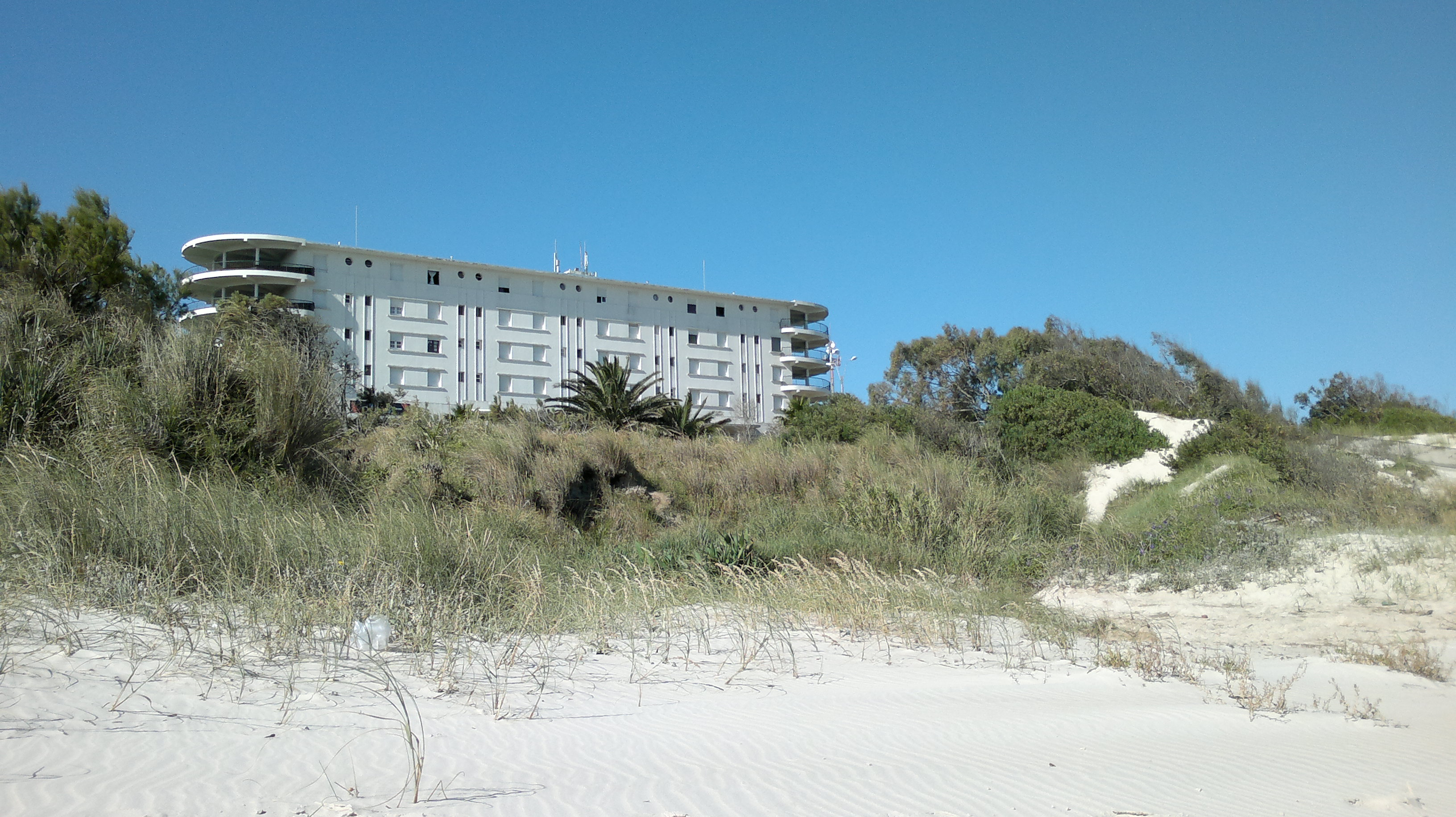 Hotel - La Floresta in Uruguay